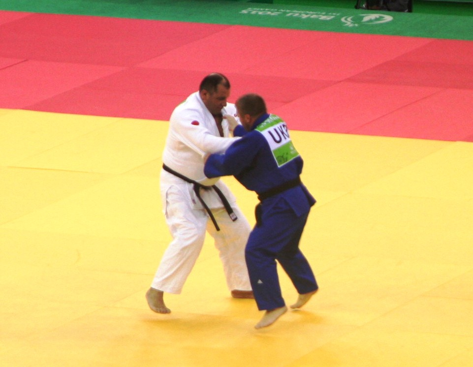 Zakiyev (AZE) vs Pominov (UKR) at the gold final of the 2015 European Games